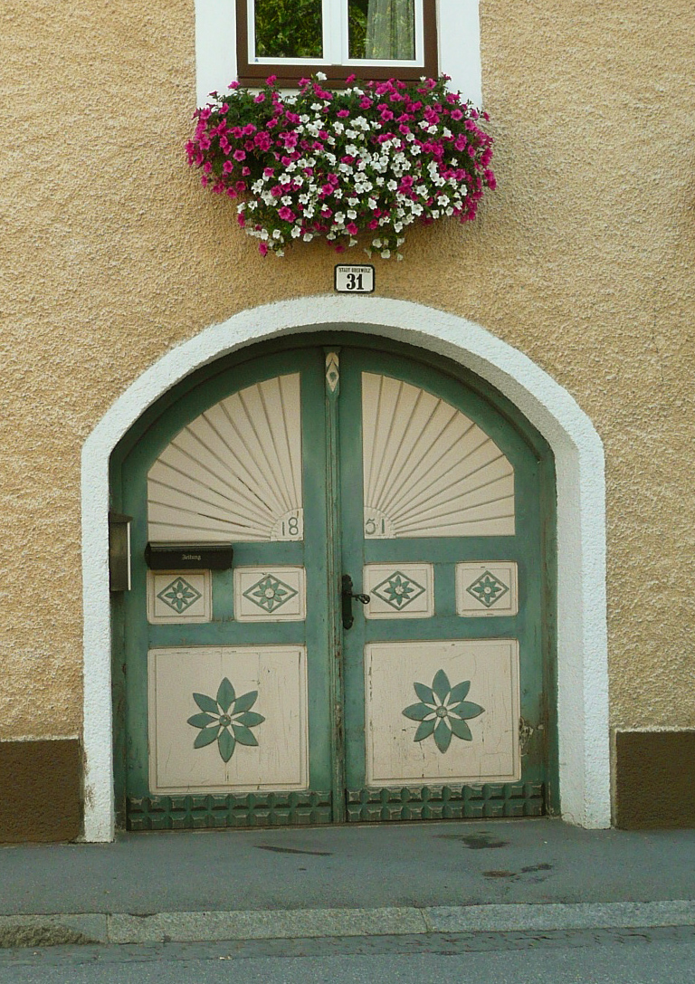 Typical decorated door in Oberwölz